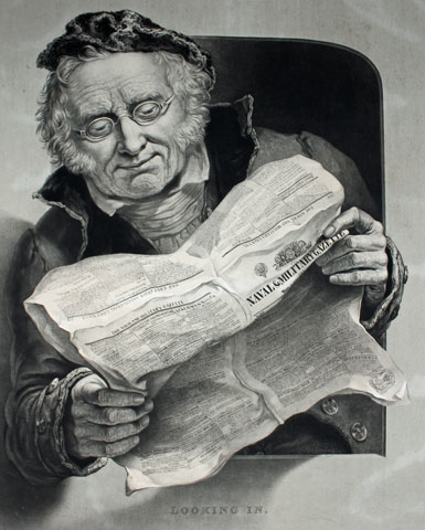 digital photograph of mezzotint print